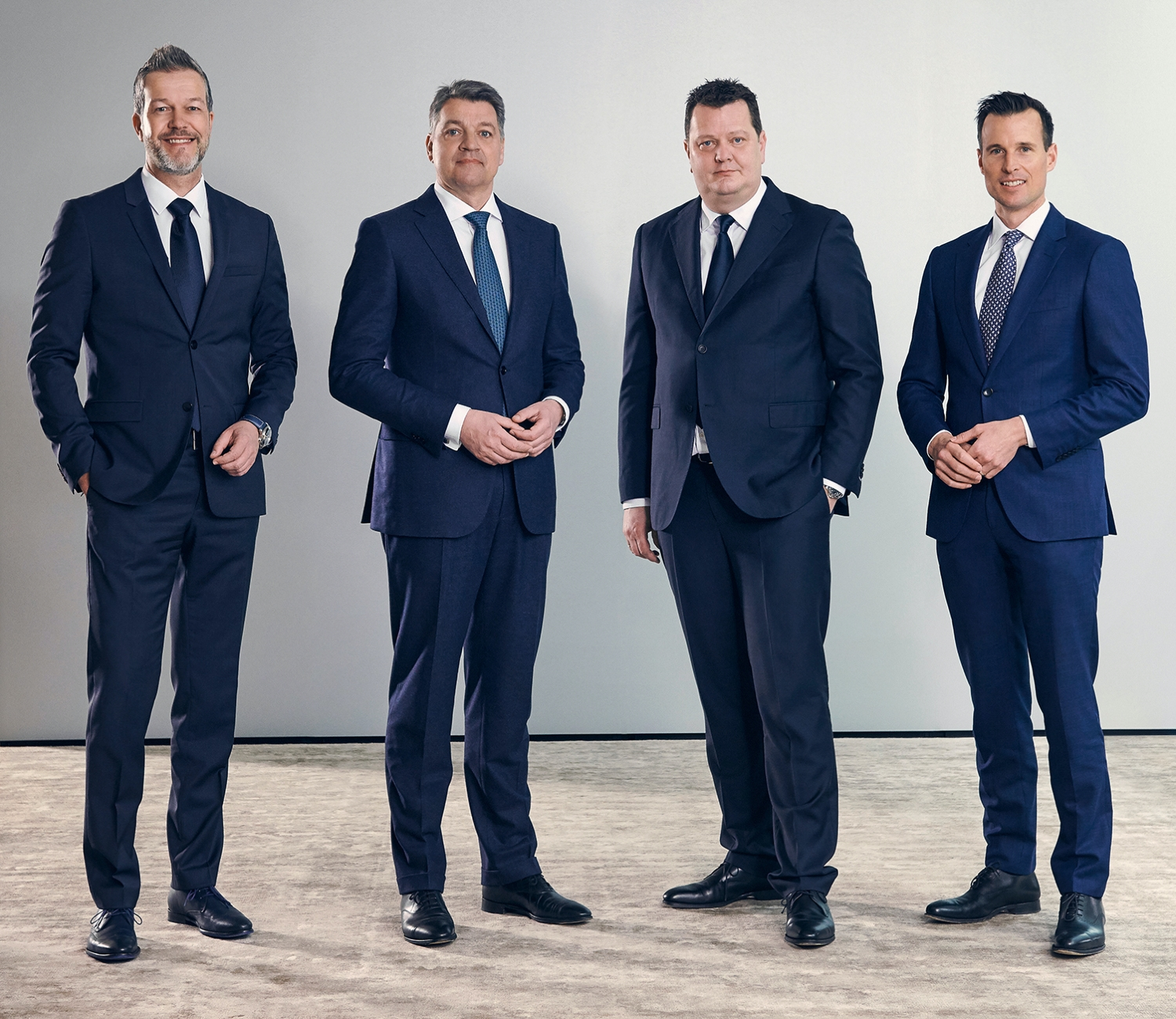 Board of Management of CHG-Meridian